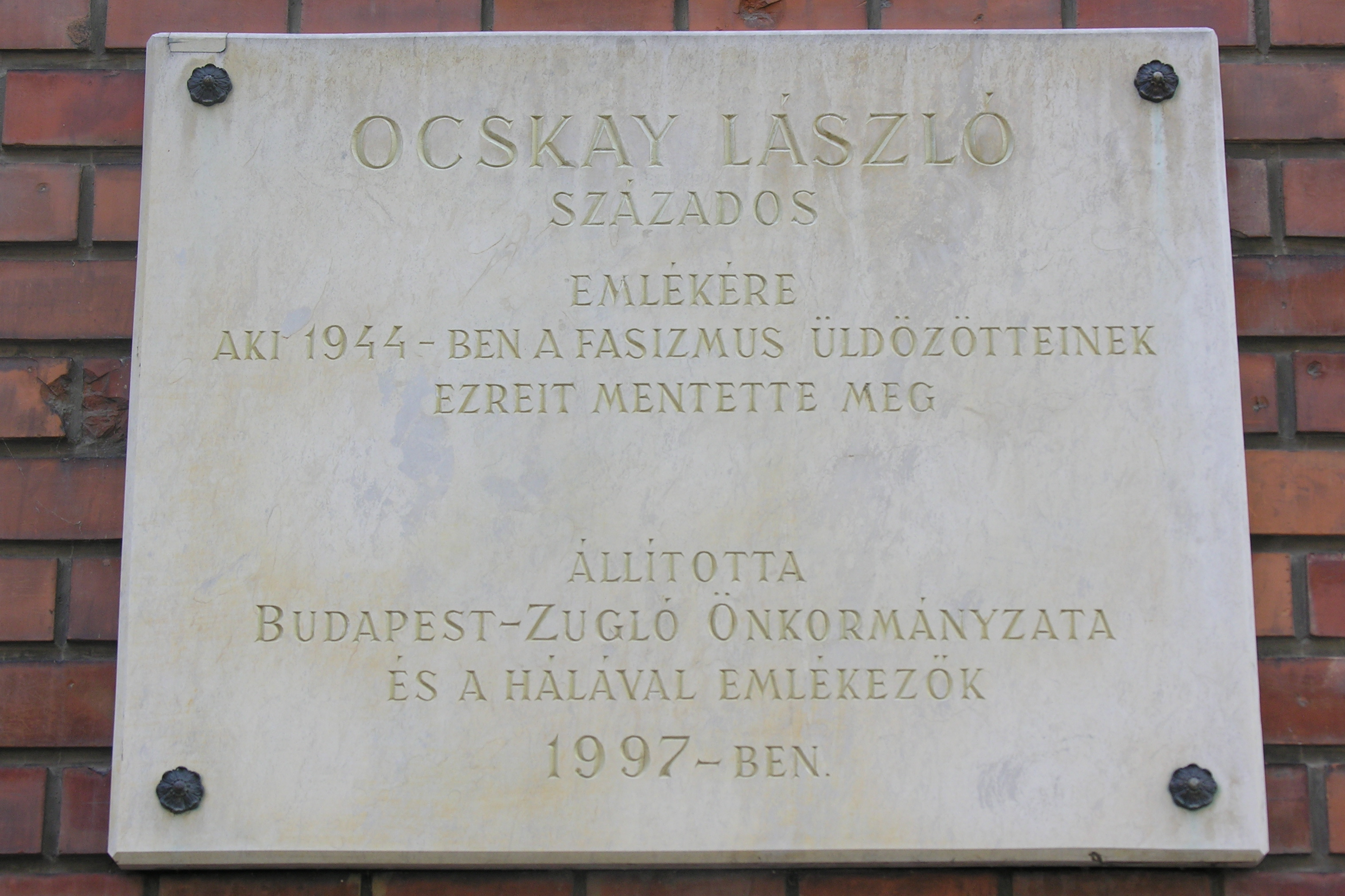 Commemorative plaque of László Ocskay, Budapest District XIV, Cházár András Street No 10